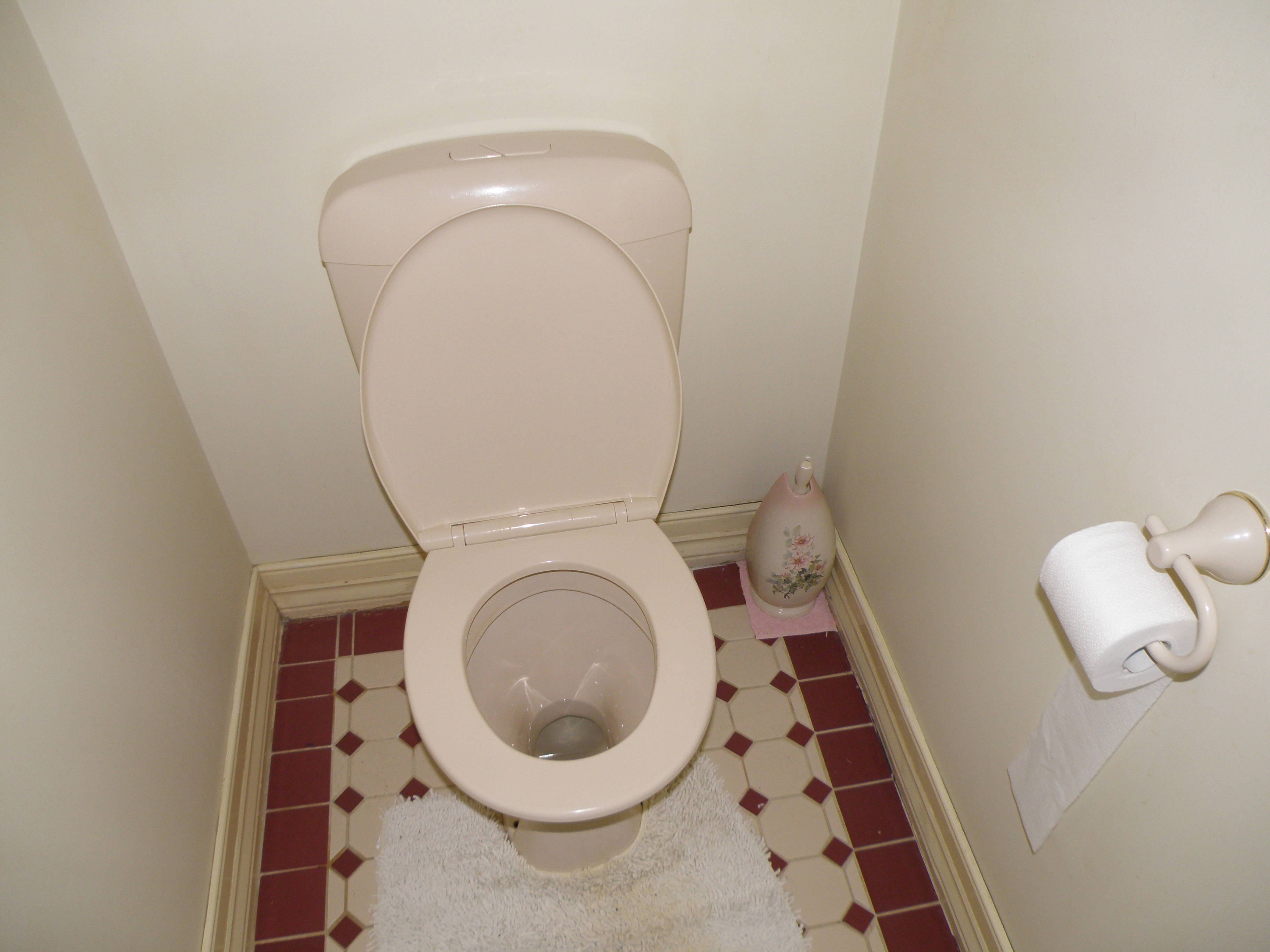 An Australian toilet. This toilet is, according my mother, an "up market" toilet", though she notes it is, for the most part, a pretty standard toilet and not among the more expensive. This photo was taken by me, Matthew Paul Argall (Born 1990) and I uploaded it due to the shortage of Australian toilet pictures on this website and because of the shortage of photos of similar-style toilets on Commons.